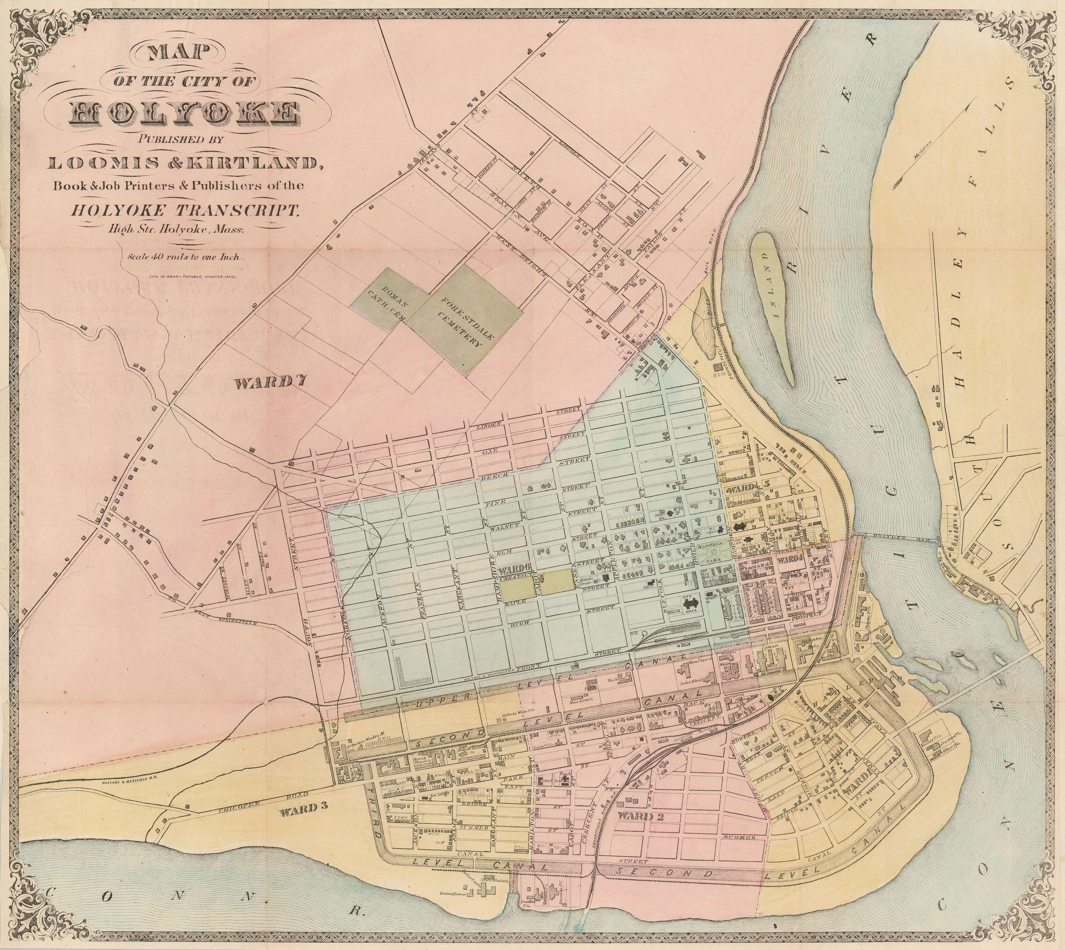 A map of Holyoke, Massachusetts from a year after its incorporation as a city, published by William S. Loomis, and Edwin Leander Kirtland, who were at that time publishers of the Holyoke Transcript.